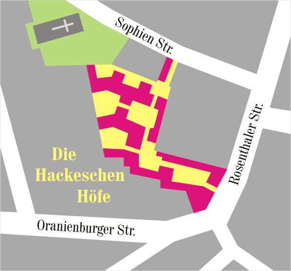 Map of Berlin's Hackesche Höfe area